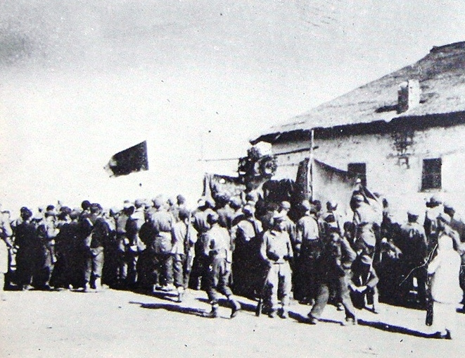 On the free territories by partisans units in 1944: cultural and artistic performance. This media file is produced by Wikipedian in Residence in Category:Wikipedian in Residence at DARM in 2016.